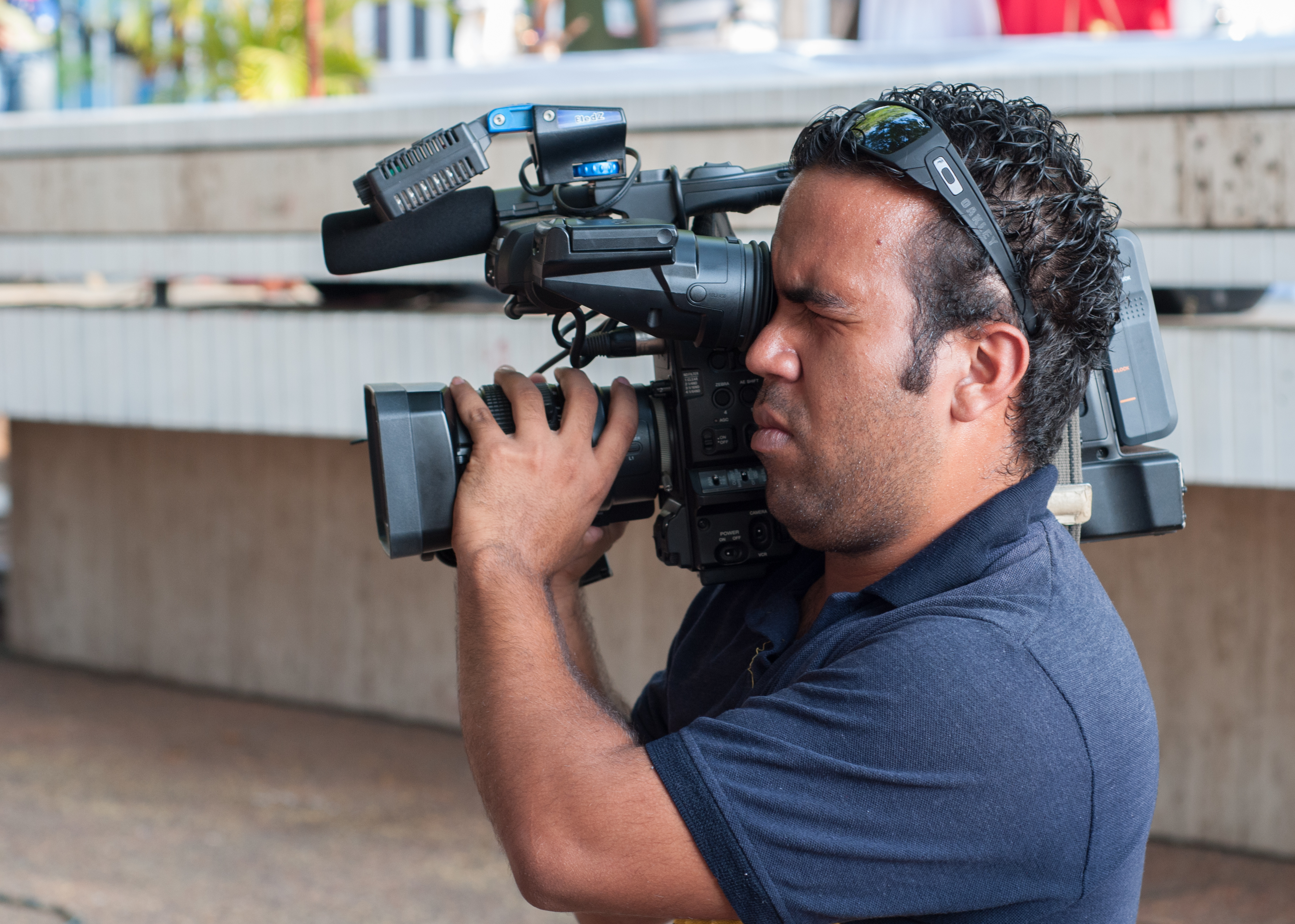 cameraman